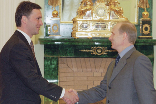 THE KREMLIN, MOSCOW. Vladimir Putin with Norway's Prime Minister Jens Stoltenberg.